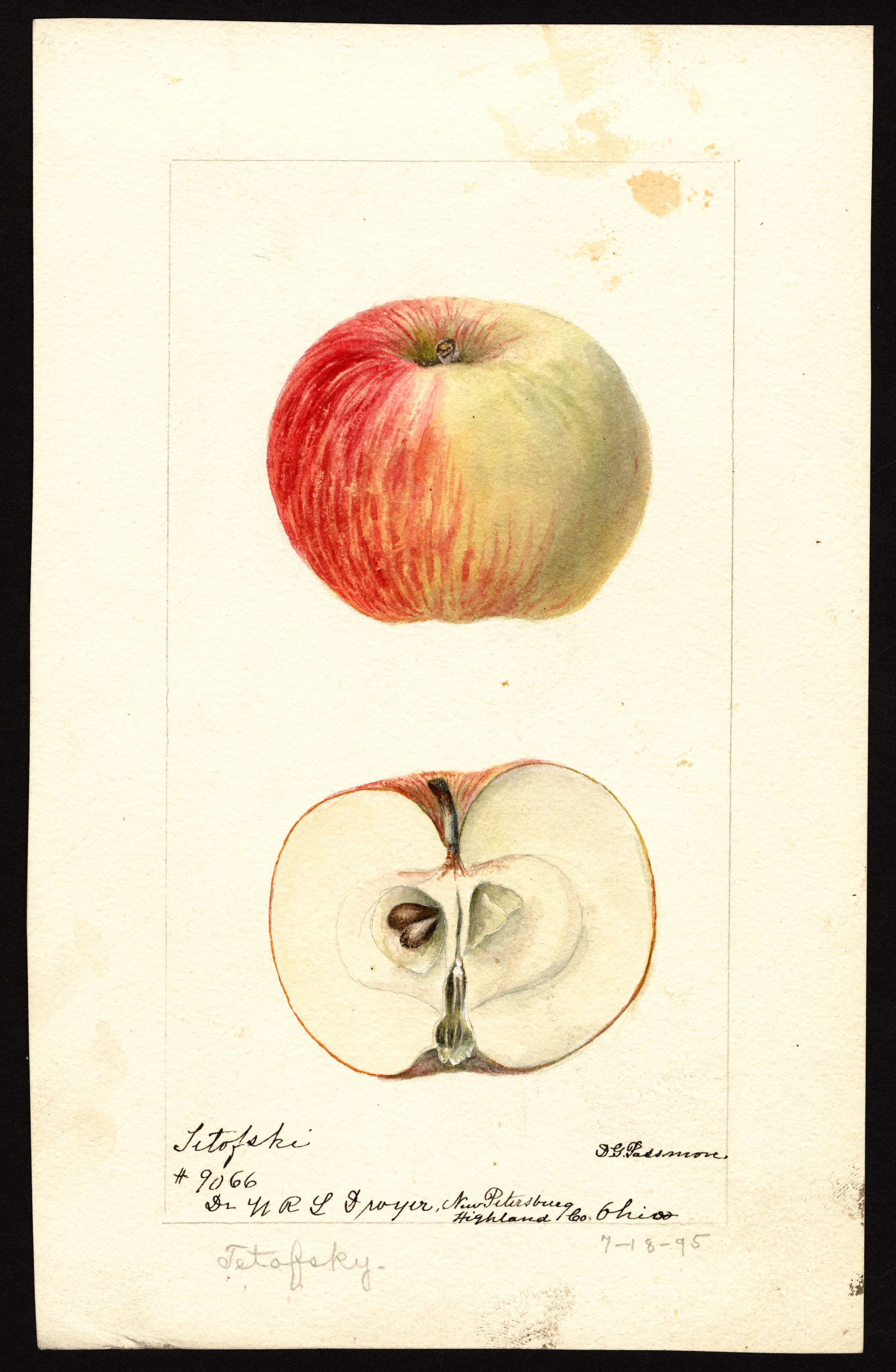 Image of the Tetofski variety of apples (scientific name: Malus domestica), with this specimen originating in New Petersburg, Highland County, Ohio, United States. Source: U.S. Department of Agriculture Pomological Watercolor Collection. Rare and Special Collections, National Agricultural Library, Beltsville, MD 20705.